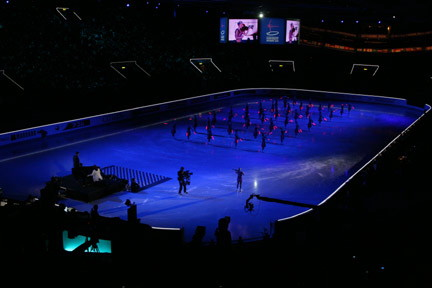 2008 World Figure Skating Championships opening ceremony